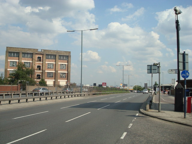 Western Avenue, London W5